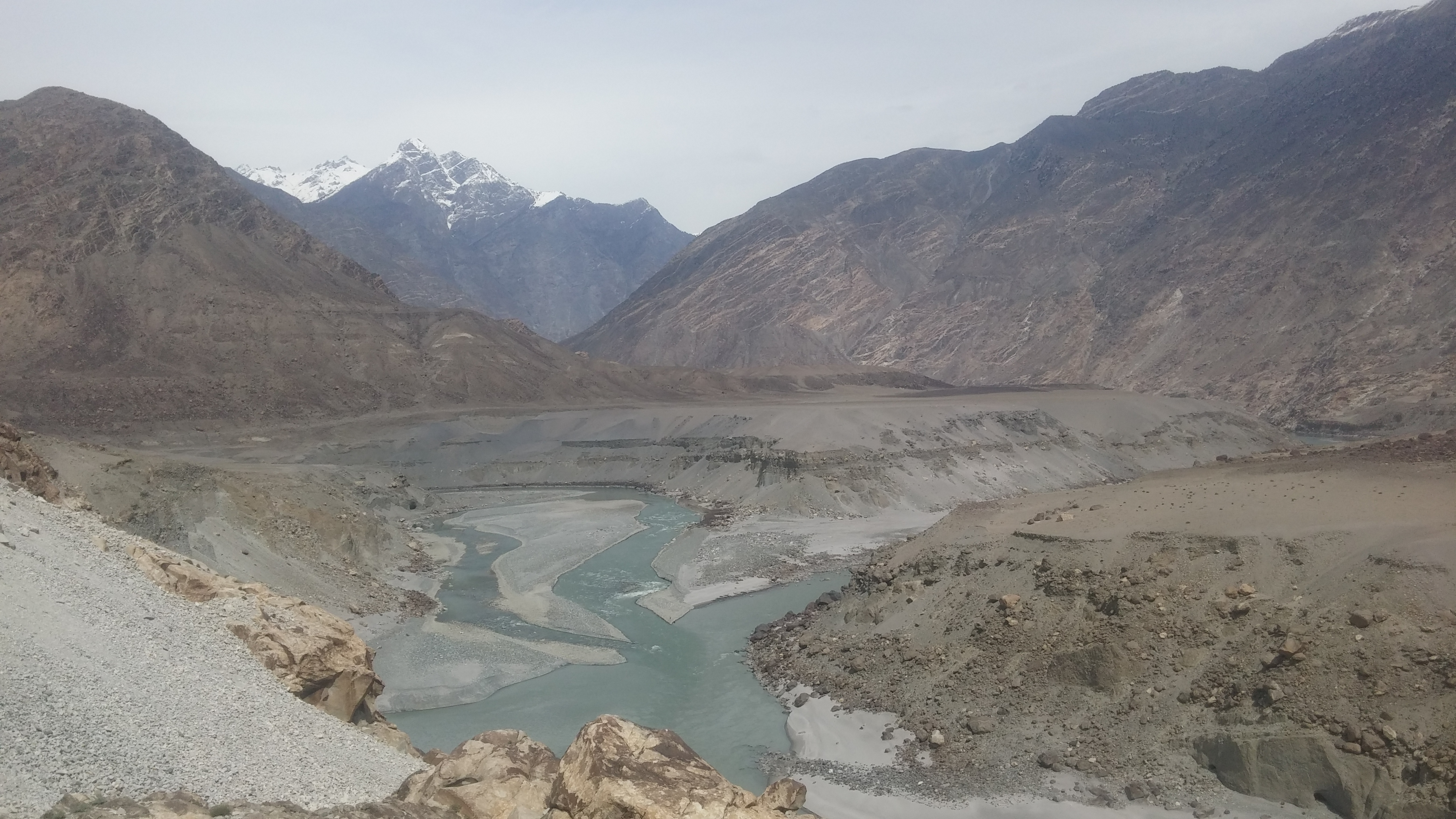 This junction point is near Raikot bridge (Which is most famous for Nanga Parbat base camp track)